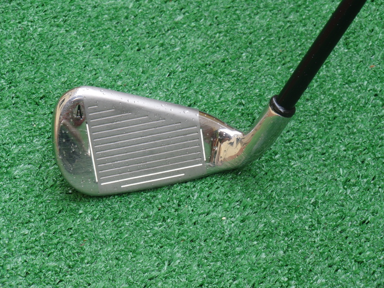 Golf club, Callawax X-20 4 iron - III